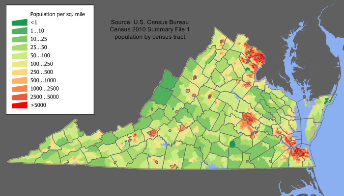 Population map of Virginia, updated with 2010 census data.